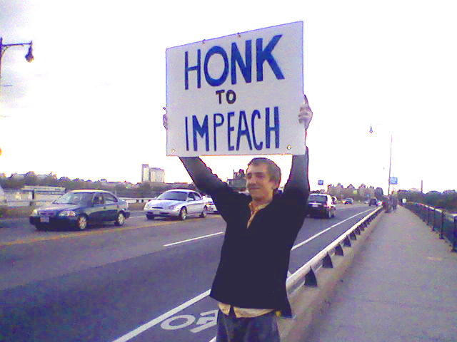 A solitary protester on the Charles River bridge in Boston, MA on the afternoon of September 28, 2007.